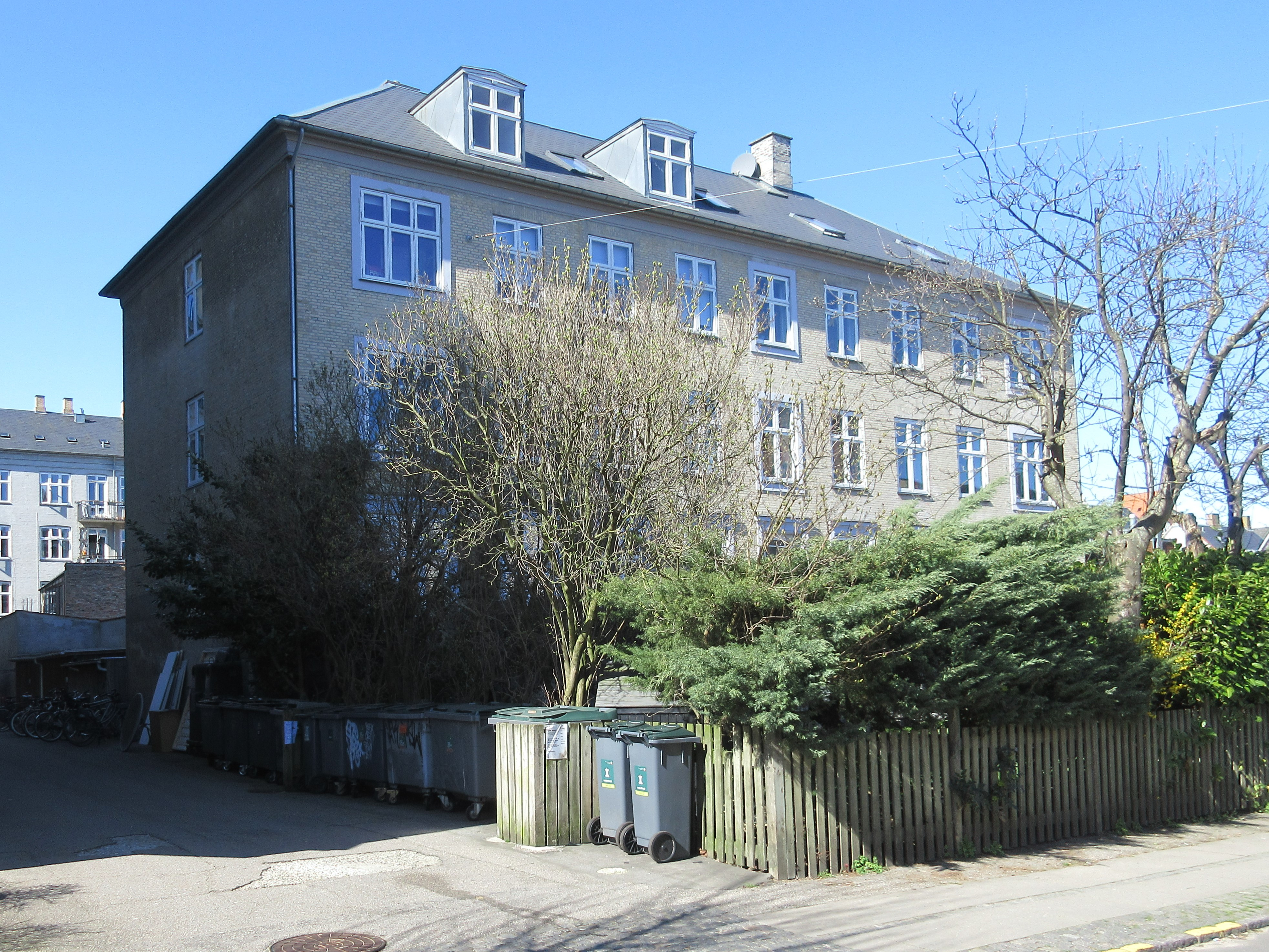 Lykkesholms Allé 11 in Frederiksberg, Denmark